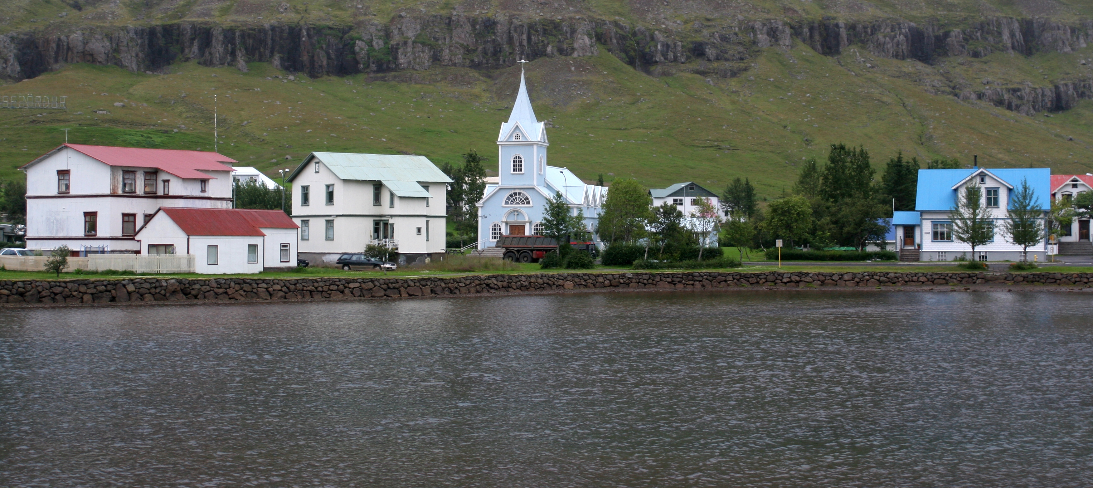 Seyðisfjörður, Iceland